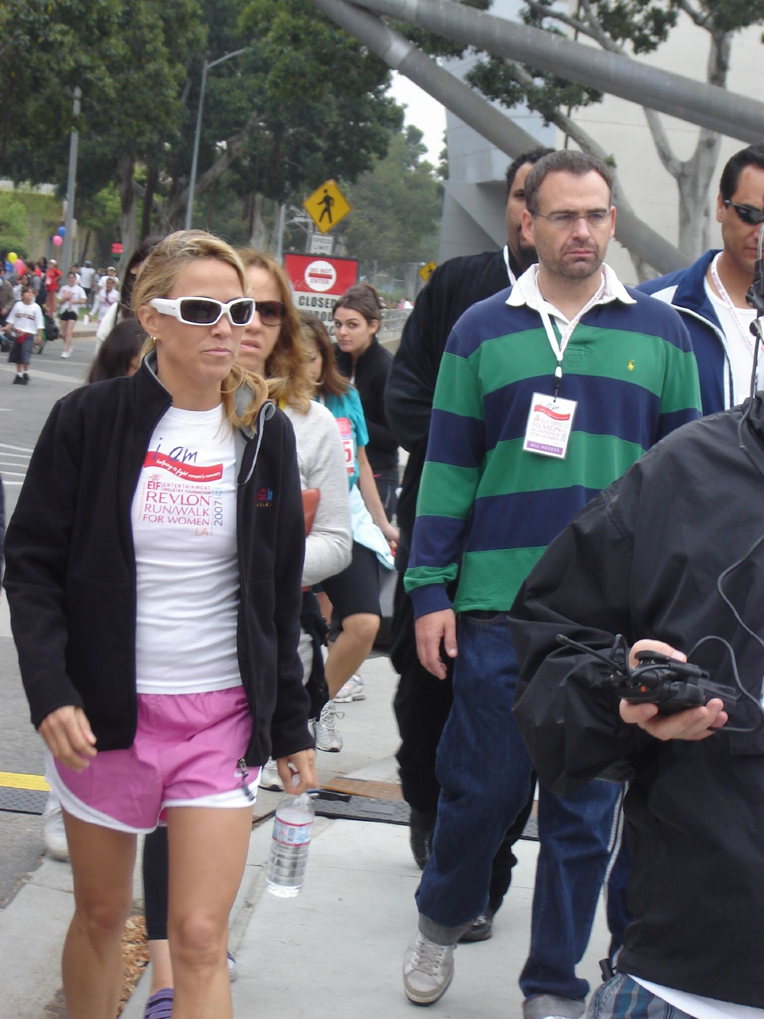 Sheryl Crow au Revlon Run Walk 2007